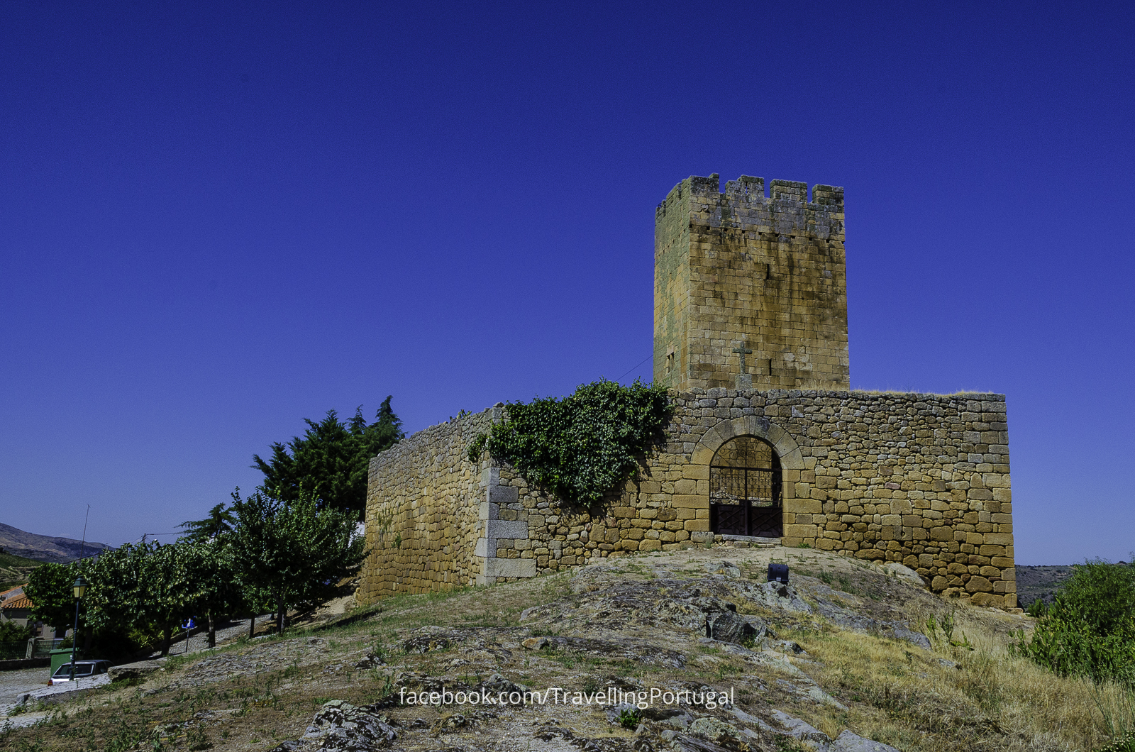 Longroiva Castle